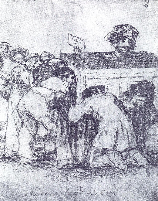 Miran lo que no ven is a aquatint print created by Francisco Goya about 1820s.